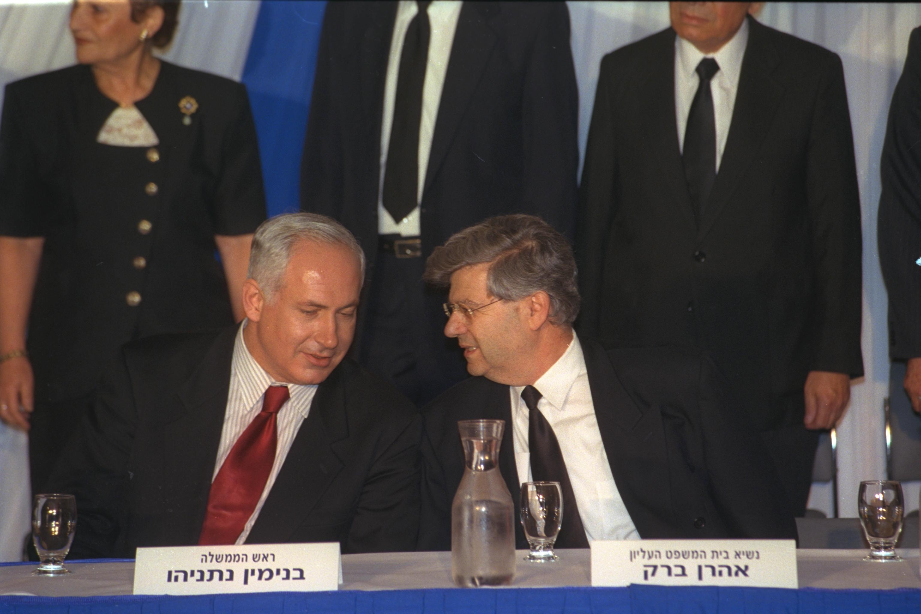 Supreme Court President Aharon Barak speaking with Prime Minister Benjamin Netanayhu during a ceremony in the Supreme Court marking 50 years of law.